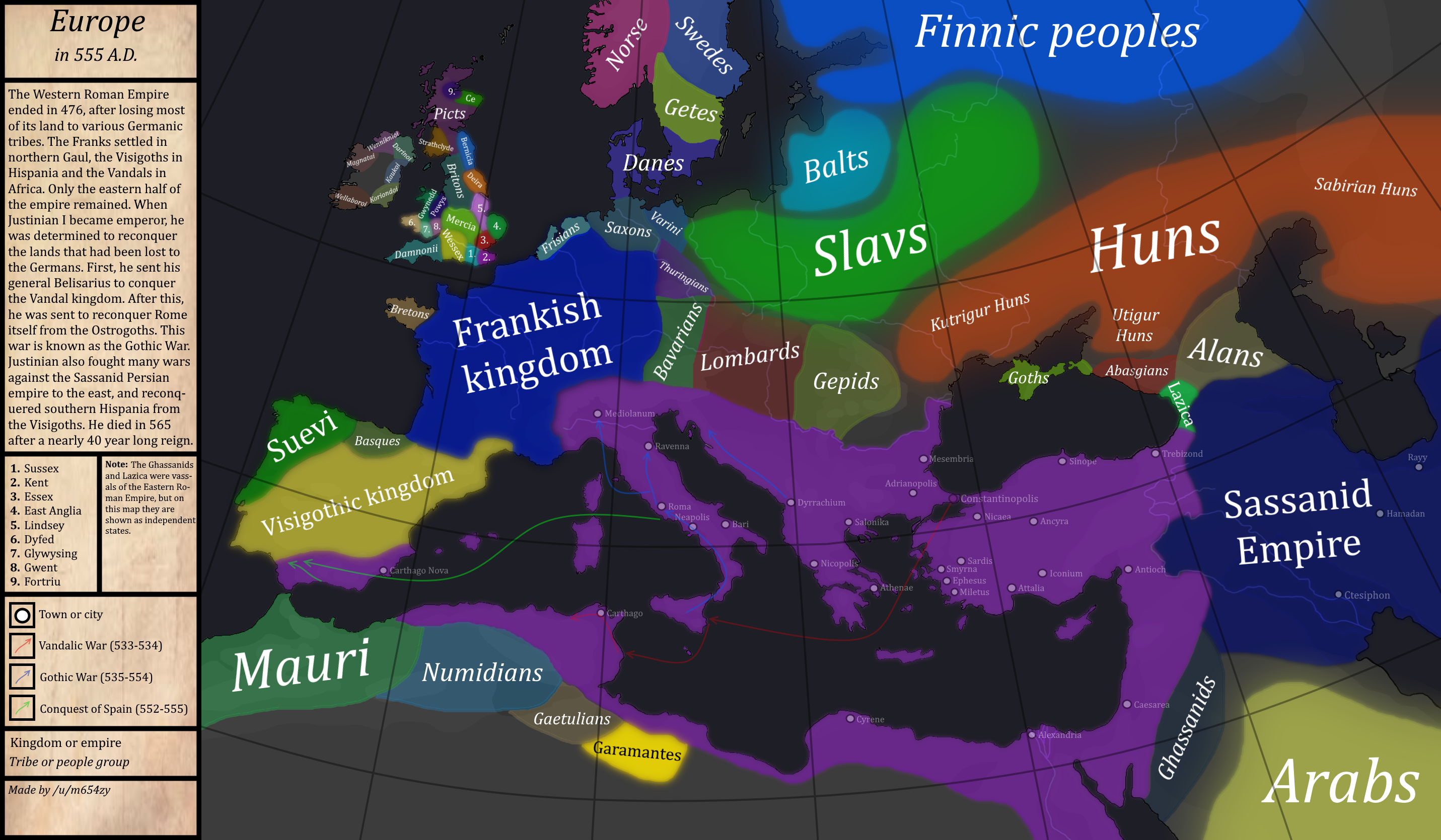 This map shows Europe in 555 AD, when the Eastern Roman (Byzantine) empire was at its greatest extent under Justinian.